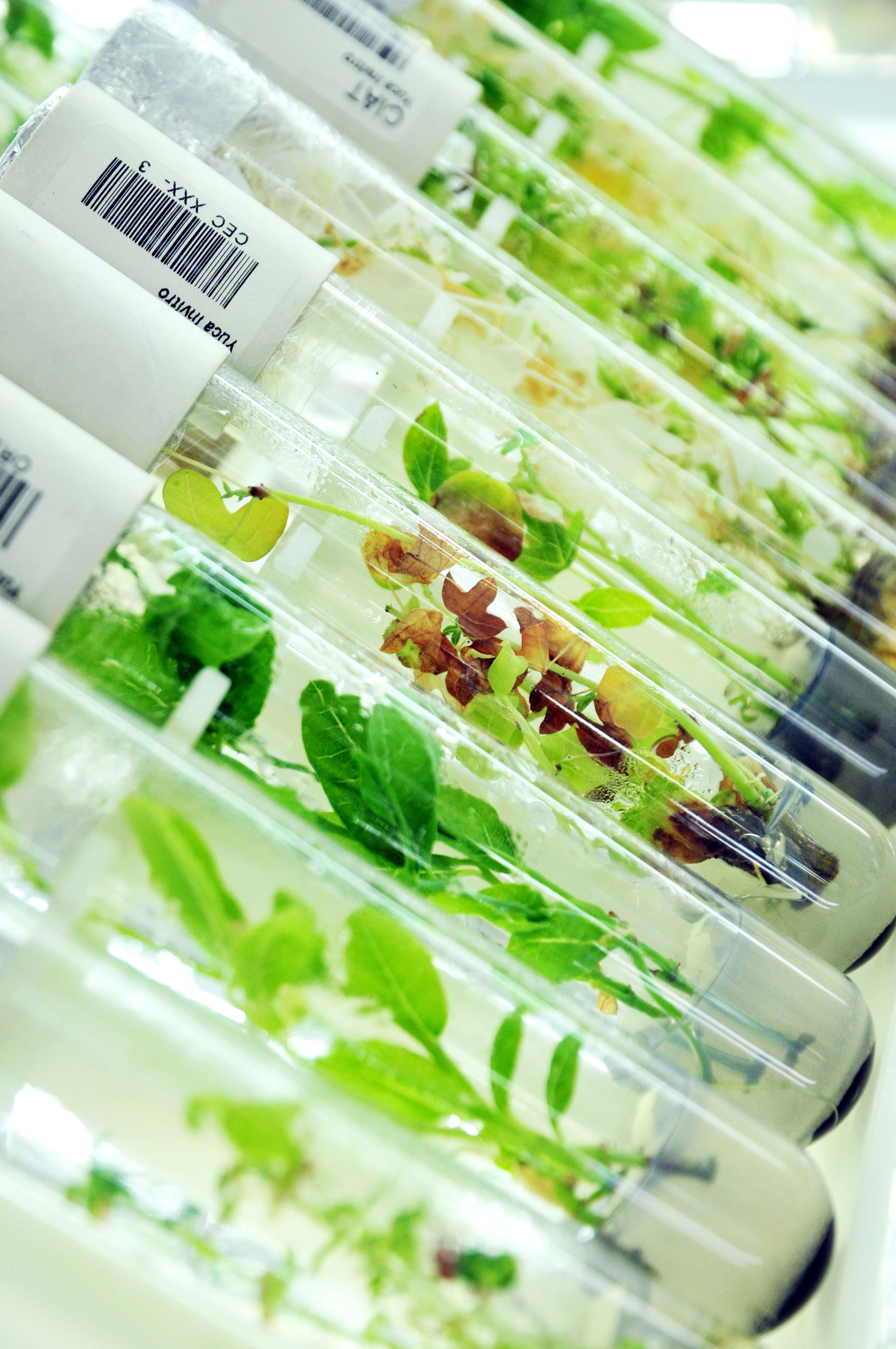 Pic by Neil Palmer (CIAT). Plant samples in the gene bank, part of CIAT's Genetic Resources program, at the institution's headquarters in Colombia.